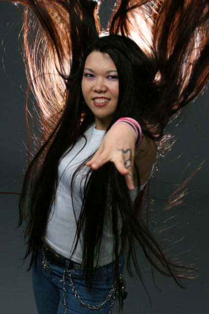 Taken from a photo shoot for a 2006 calendar featuring various women in the Finnish heavy metal industry.